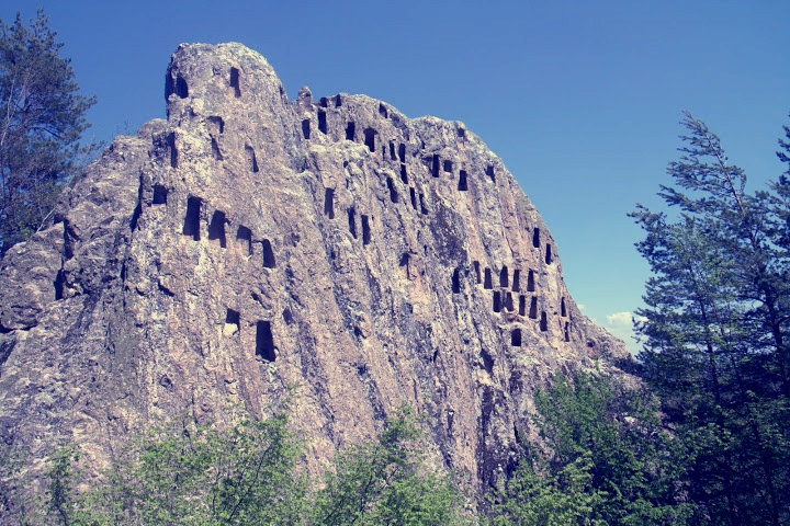 Eagle Rocks sanctuary BG